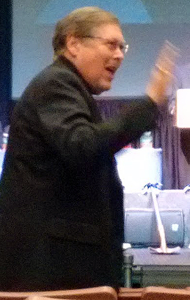 Kentucky State Senator C. B. Embry